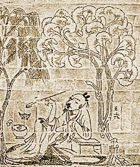 A part of molded-brick relief "Seven Sages of the Bamboo Grove and Rong Qiqi", found from an Eastern Jin or Southern dynasties tomb near Nanjing, which depicts Shan Tao (left) and Wang Rong (right).